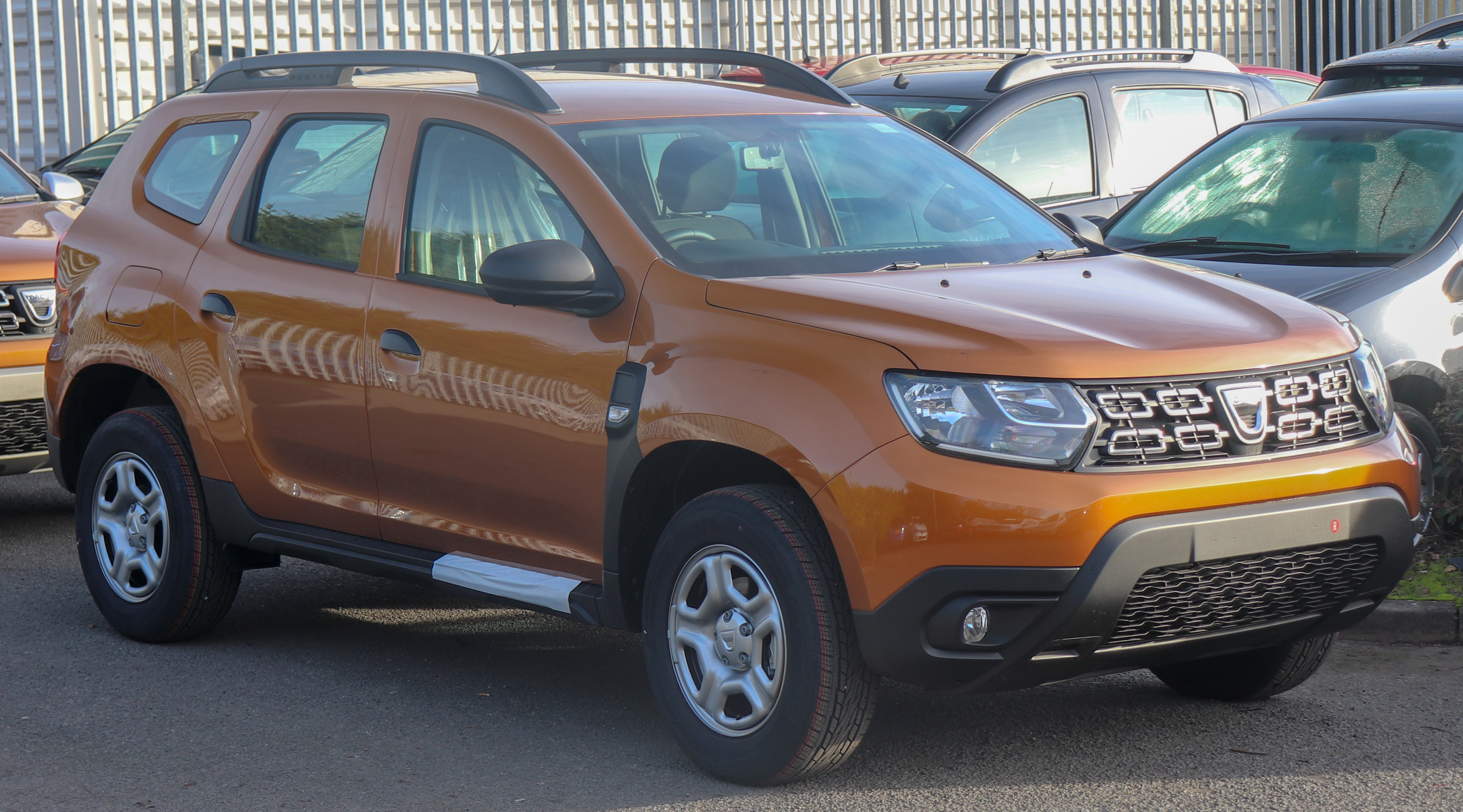 2019 Dacia Duster Essential Taken in Leamington Spa